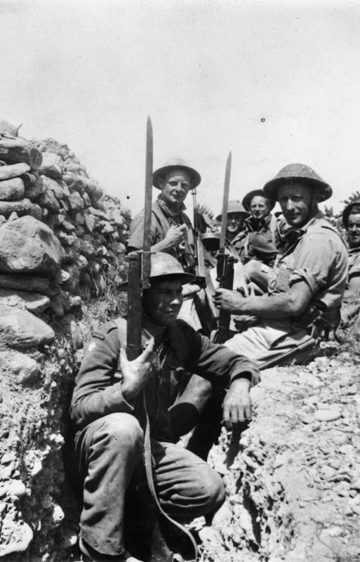 The Battle For Crete 20 - 31 May 1941 A group of British soldiers in a trench with fixed bayonets.